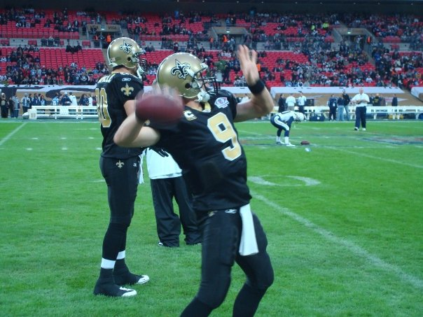 Drew Brees warming up in Wembley Stadium. Drew Brees lead his New Orleans Saints to a victory over the San Diego Chargers 37-32